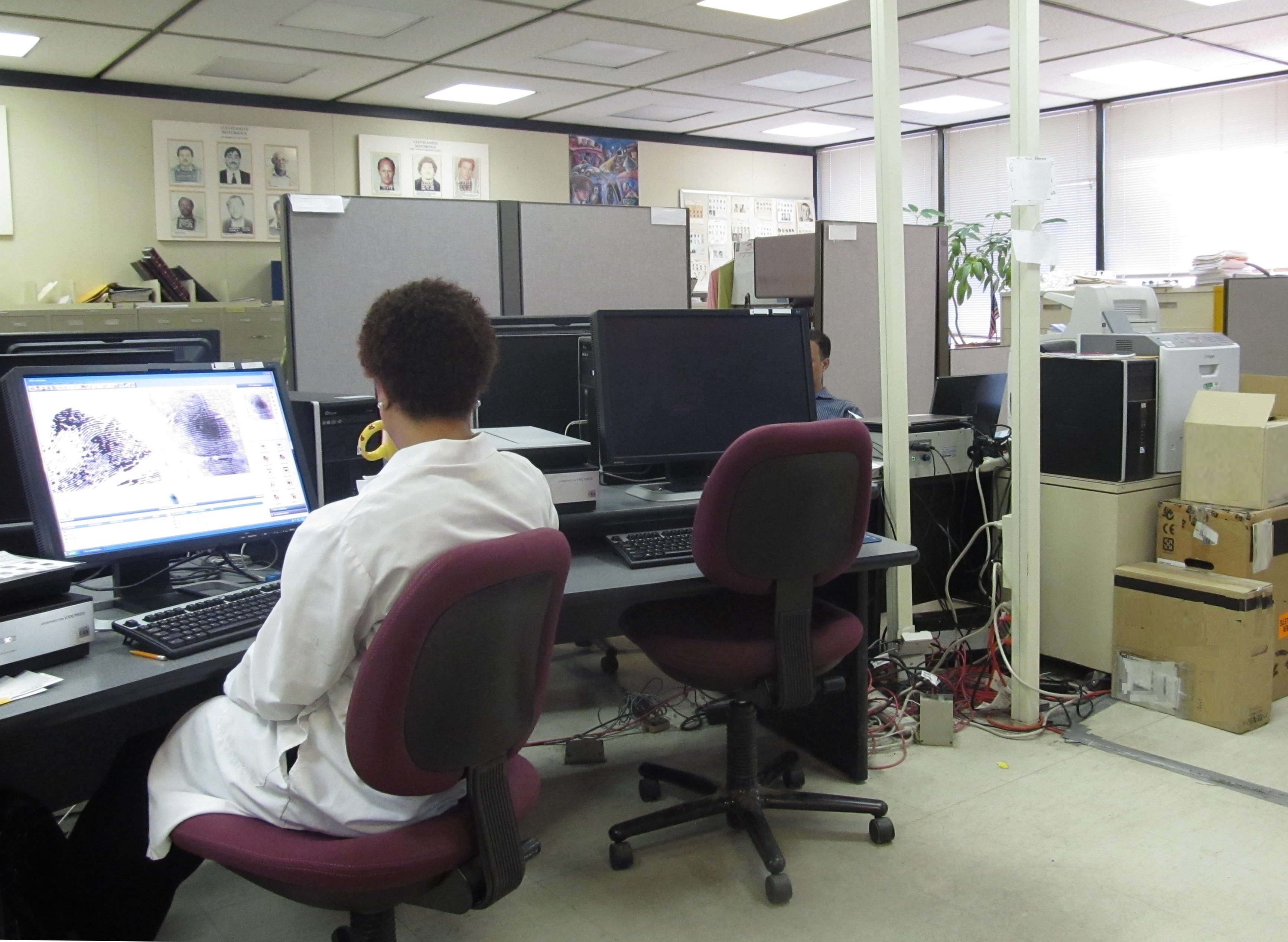 The Fingerprint Identification office at a city police department.